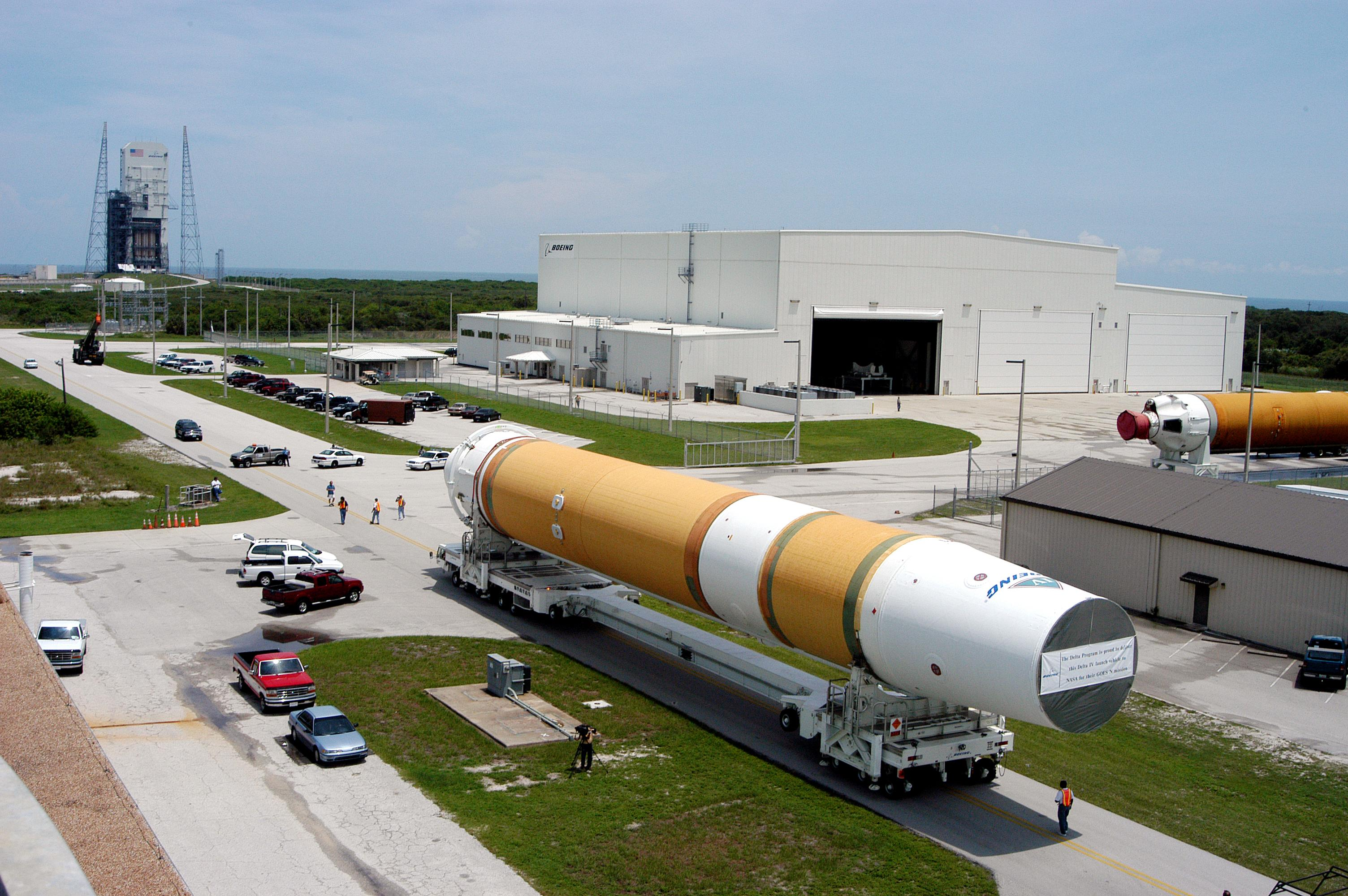 Cape Canaveral Air Force Station Launch Complex 37 Horizontal Integration Building. Original caption: KENNEDY SPACE CENTER, FLA. - Two Boeing Delta IV first stages head to the Horizontal Integration Facility (upper right) at Launch Complex 37, Cape Canaveral Air Force Station. The rockets were shipped by barge from Decatur, Ala., to Port Canaveral and offloaded onto Elevating Platform Transporters. A Boeing Delta IV will be used for the December launching of the GOES-N weather satellite for NASA and NOAA. The GOES-N is the first in a series of three advanced weather satellites including GOES-O and GOES-P. This satellite will provide continuous monitoring necessary for intensive data analysis. It will provide a constant vigil for the atmospheric “triggers” of severe weather conditions such as tornadoes, flash floods, hail storms and hurricanes. When these conditions develop, GOES-N will be able to monitor storm development and track their movements.